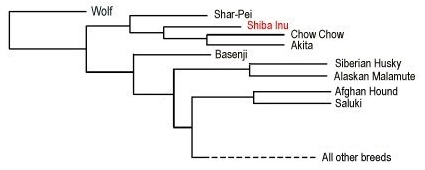 Esquema de procedencia